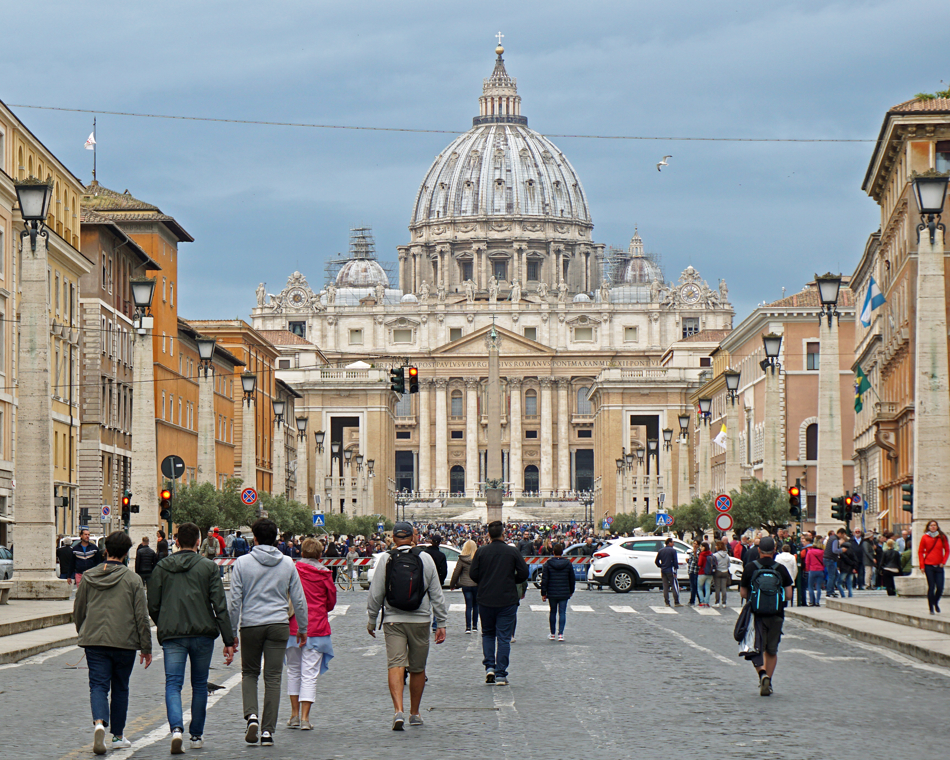 Saint Peter's Basilica from Castel Sant'Angelo , Vatican City.